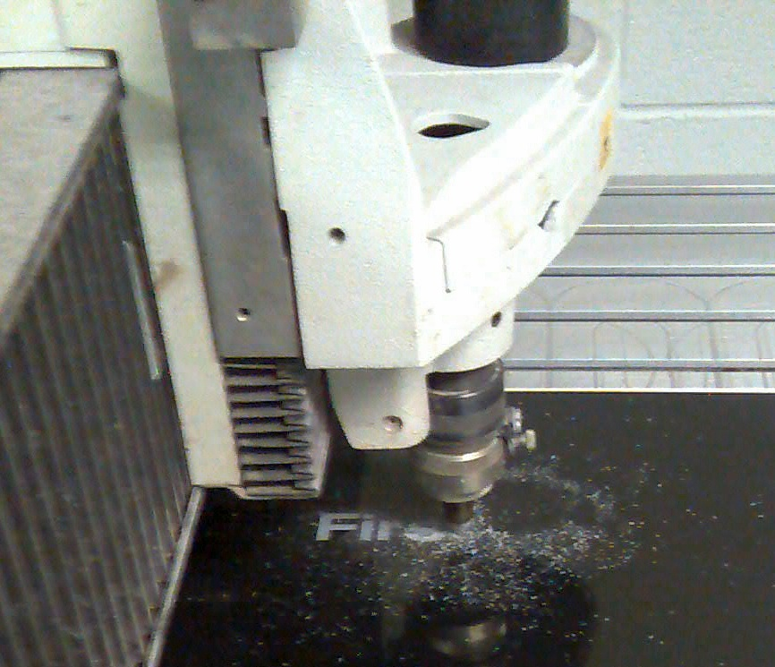 Engraving on Corian for signage purposes.